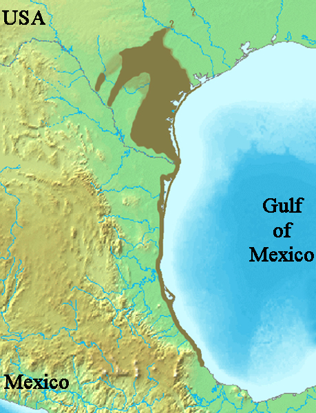 This is a map of the geographic distribution of the keeled earless lizard (Holbrookia propinqua). It is based on maps and locality data published in - Axtell, Ralph W. 1983. Holbrookia propinqua. Catalogue of American Amphibians and Reptiles. Society for the Study of Amphibians and Reptiles. 341:1-2 pp. Axtell, Ralph W. 1998. Holbrookia propinqua. Interpretive Atlas of Texas Lizards, No. 19. Southern Illinois University at Edwardsville, Edwardsville, Illinois. 1-14 pp.